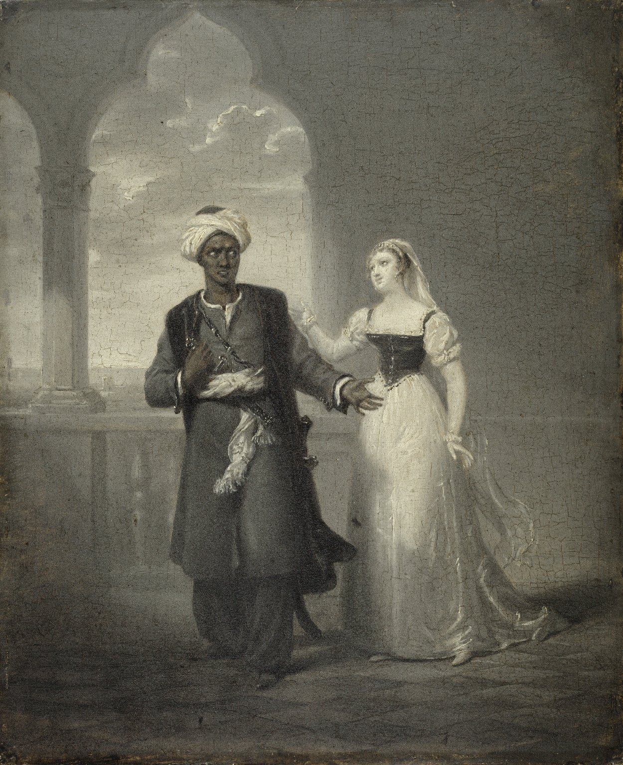 From Act III, Scene 4 of William Shakespeare's Othello